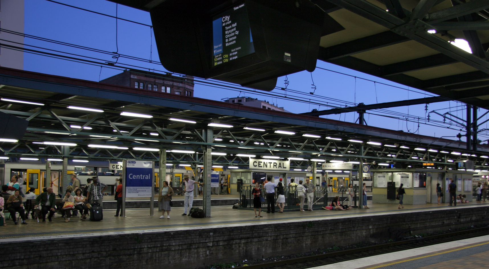 Central railway station, Sydney NSW Australia.